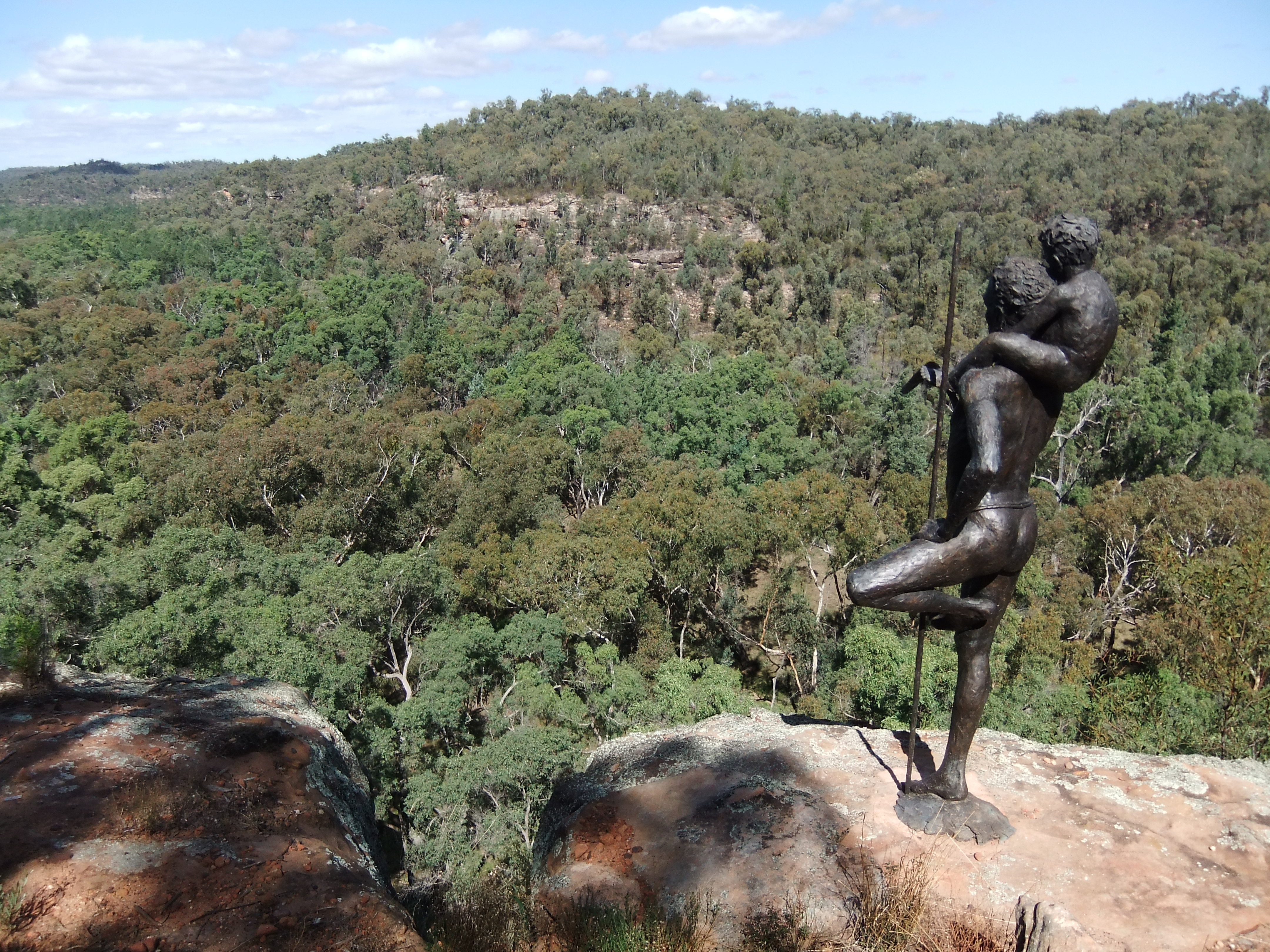 First Lesson: Bronze casting sculpture by Brett Garling looking over the Dandry Gorge as part of Sculptures in the Scrub in the heart of the Pilliga Forest - near Baradine, New South Wales